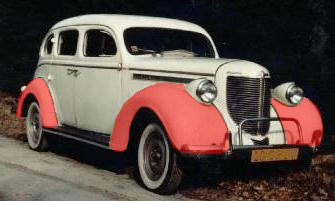 1938 Chrysler, fenders hilighted in red.